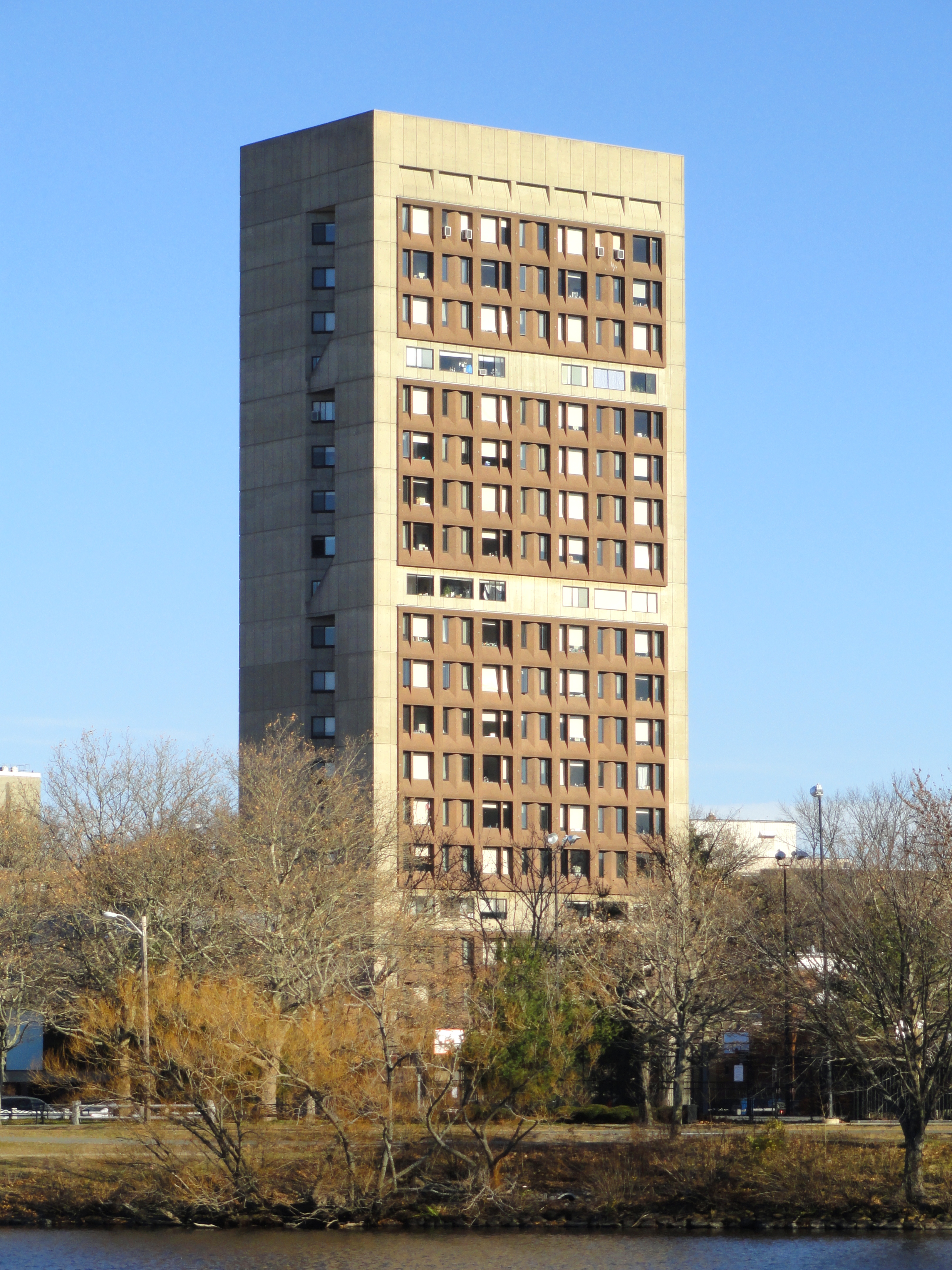 Mather House tower - Harvard University, Cambridge, Massachusetts, USA.